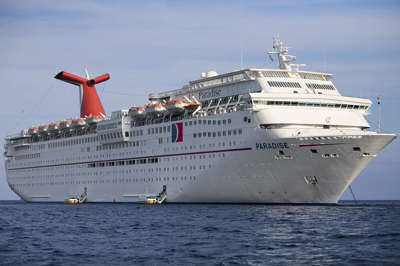 The MS Paradise cruise liner. Taken off the coast of Catalina Island, CA, USA.